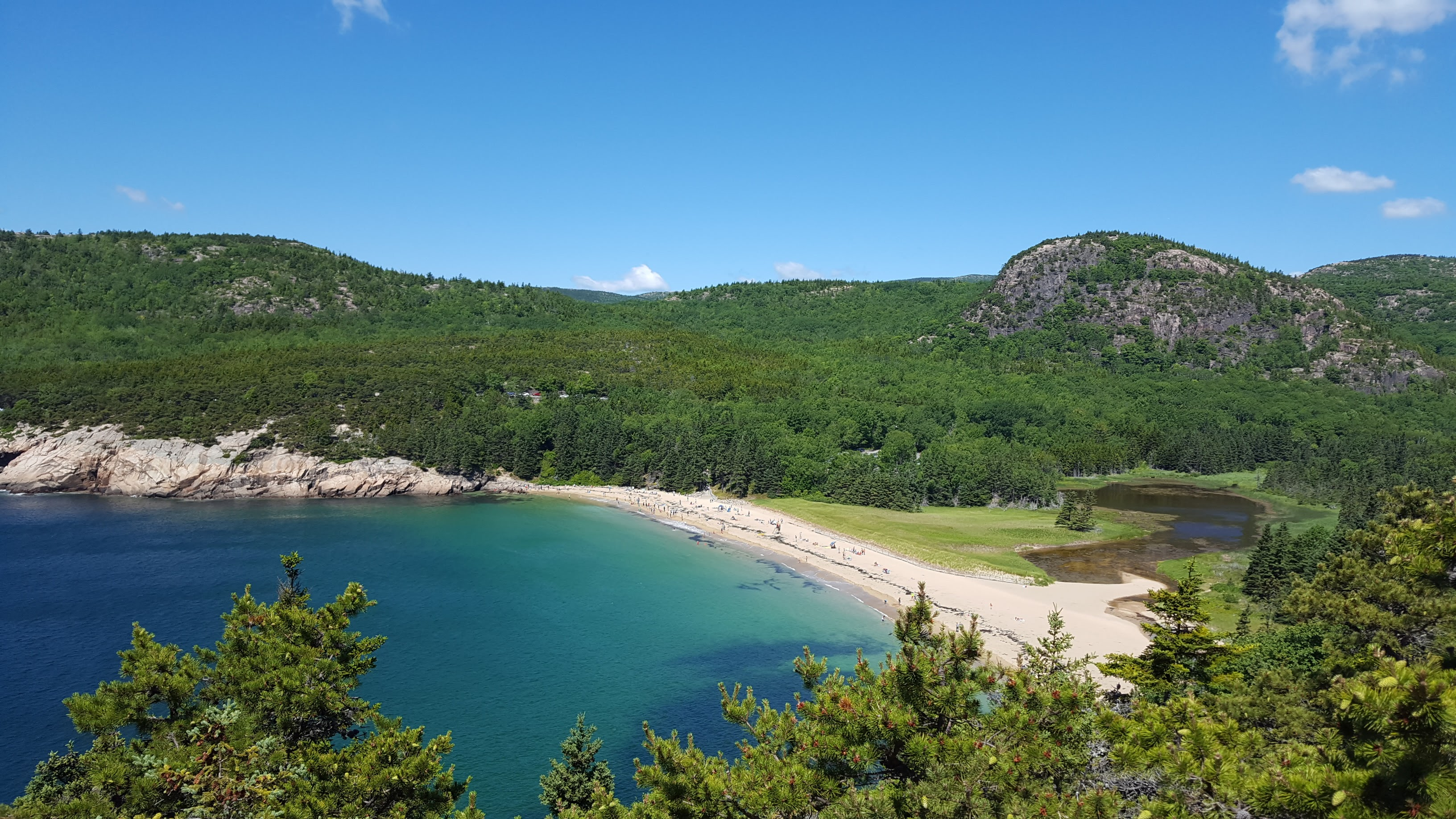 The colors of Acadia in the Summer